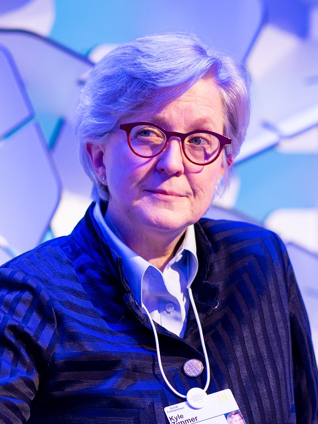 Kyle Zimmer, President and Chief Executive Officer, First Book, USA speaking during the Session "Sessiontitle" at the Annual Meeting 2019 of the World Economic Forum in Davos, January 22, 2019. Roomname Copyright by World Economic Forum / Boris Baldinger